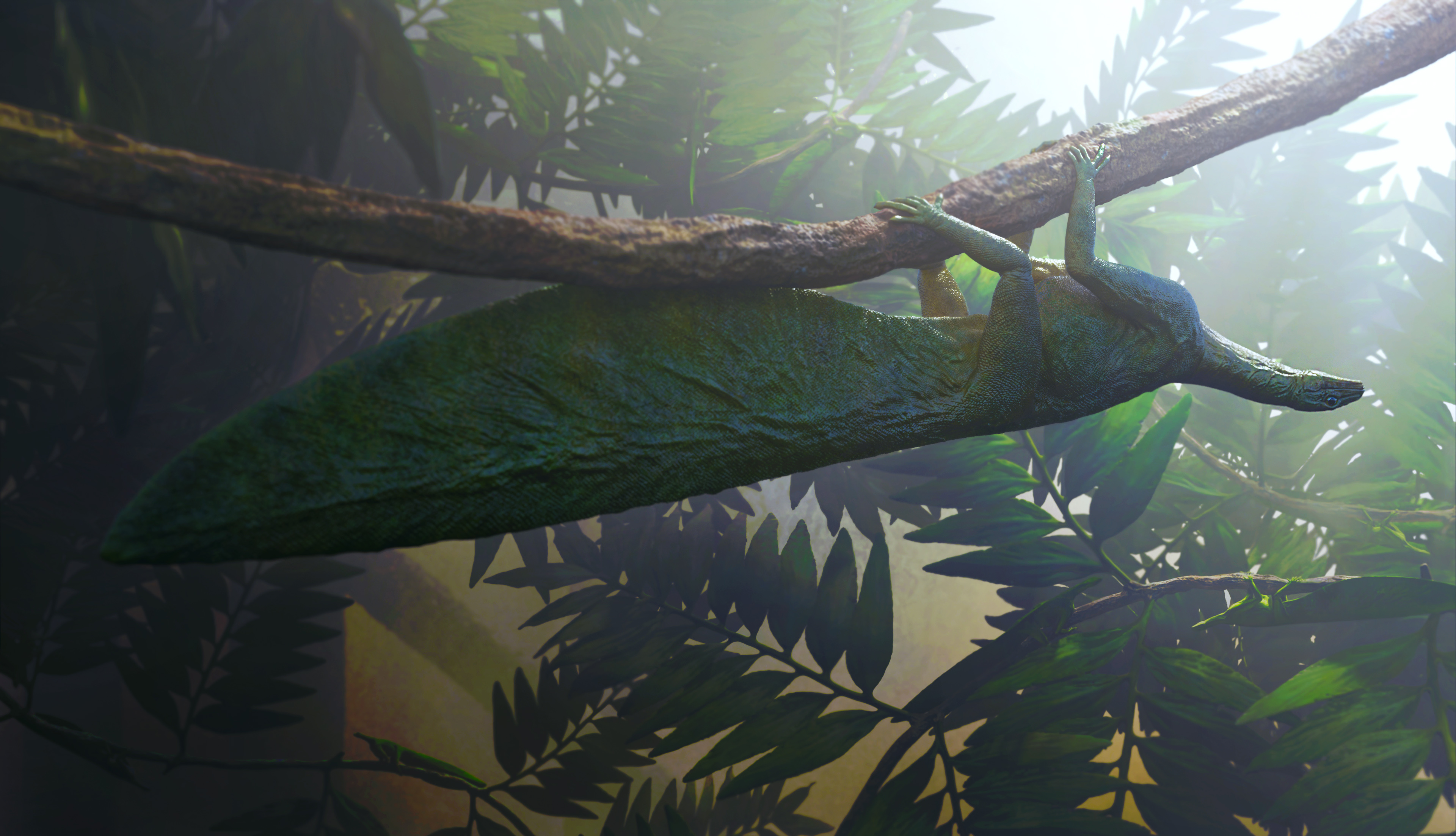 Reconstruction of a Hypuronector using it's tail as camouflage.